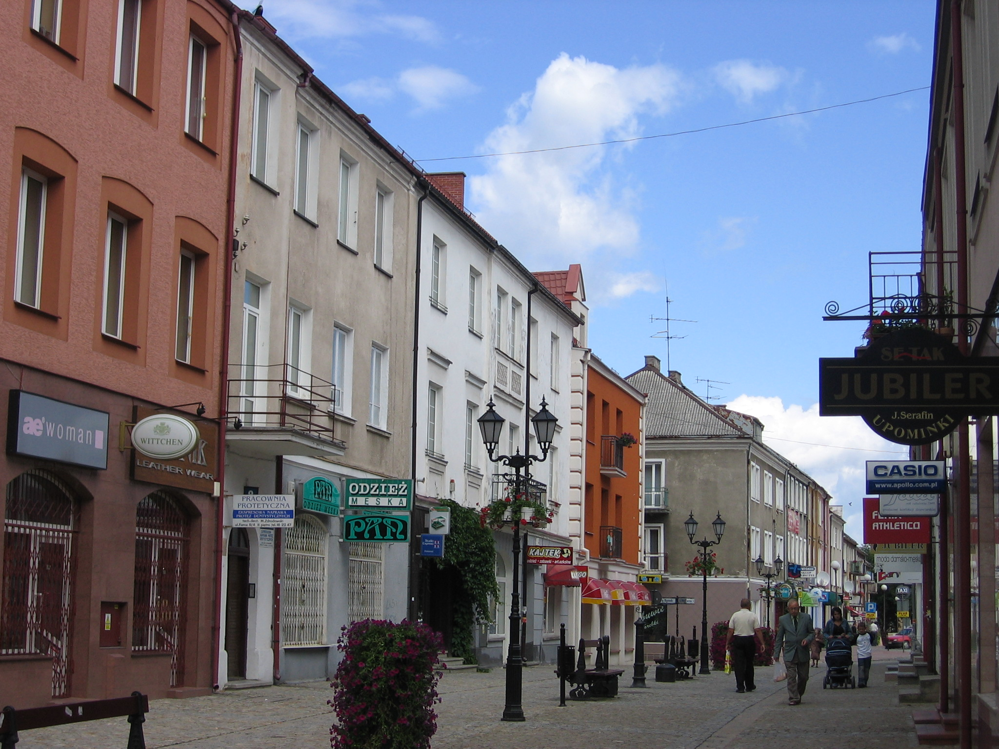 Dworna Street in Łomża. The main promenade in the city.